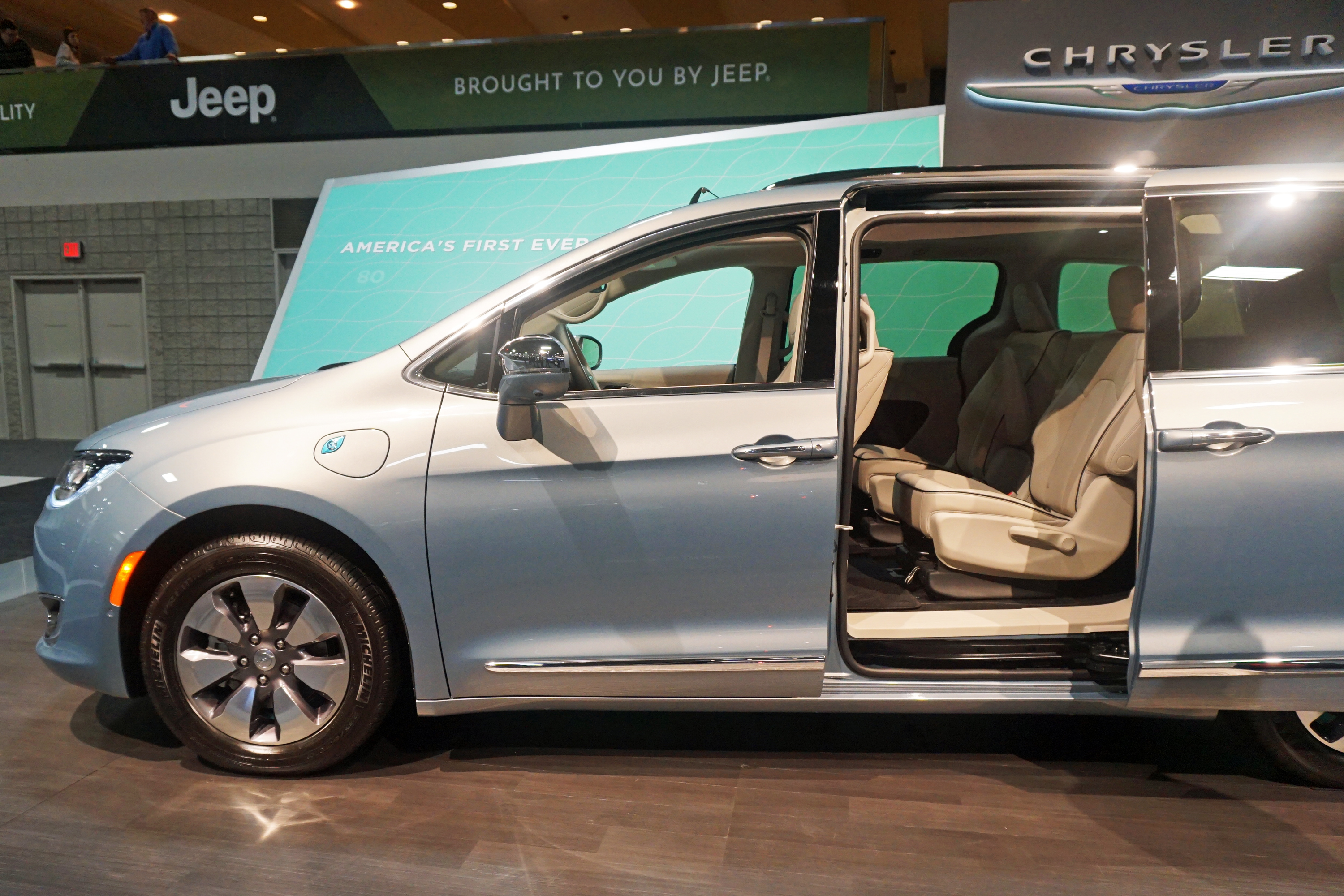 Chrysler Pacifica Hybrid plug-in hybrid exhibited at the 2017 Washington Auto Show, District of Columbia.